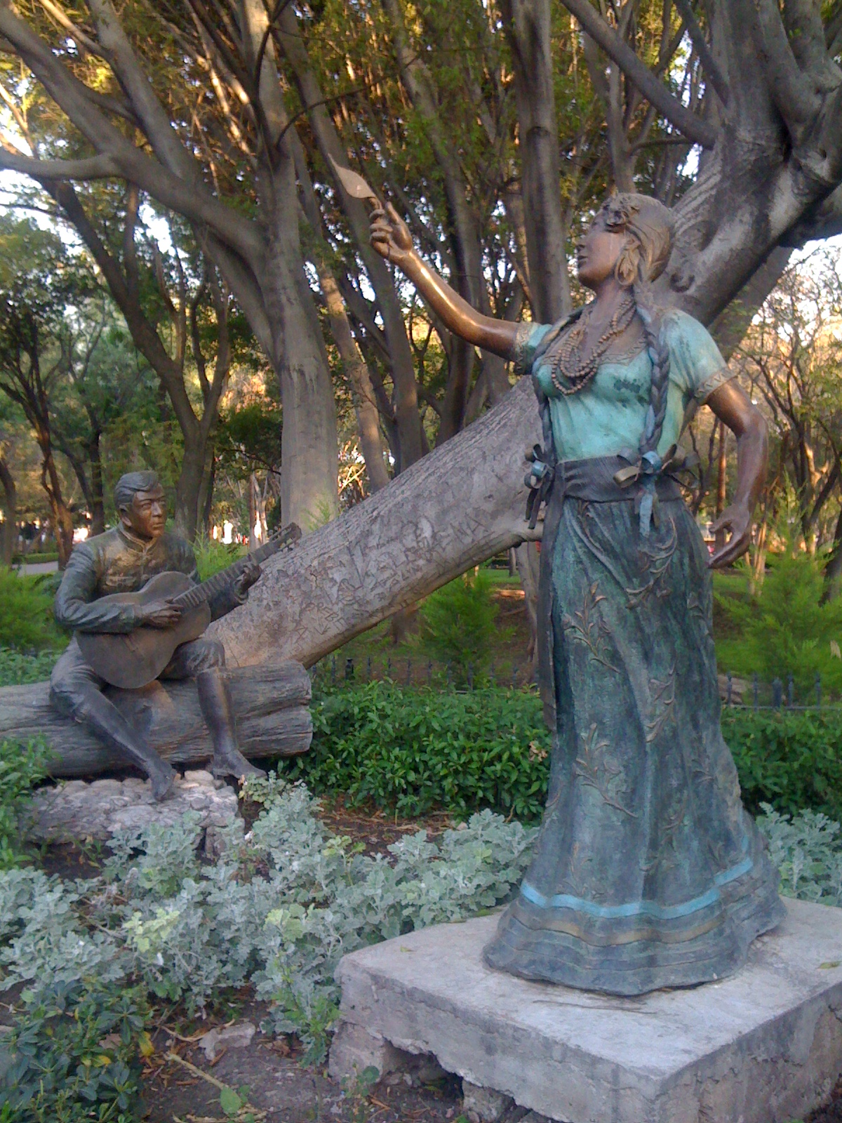 The life-sized bronze sculpture Cancion Mixteca, work of Juan Velasco, was unveiled on 1988. It's a homage from Queretaro's people to renowned composer Jose Lopez Alavez.